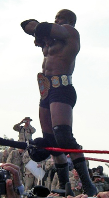 ECW World Champion Bobby Lashley poses to the audience at the WWE "Tribute to the Troops" show held in Baghdad, Iraq on 18 December 2006.